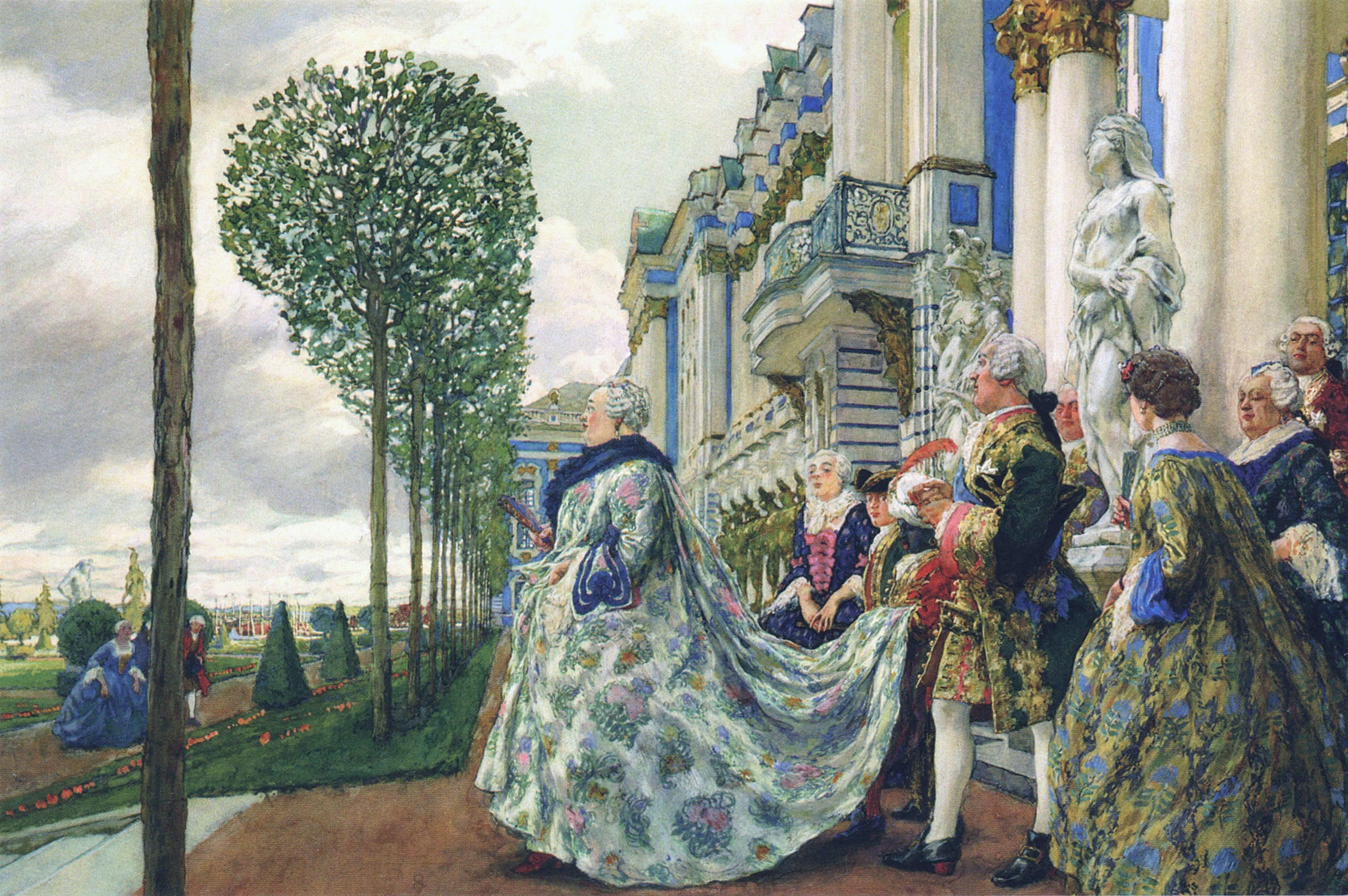 The artwork was performed as an illustration to Alexandre Benois' book Tsarskoye Selo during the Reign of Empress Elizabeth Petrovna. The book by A. Benois was published in 1910 by R. Golike & A. Vilborg Partnership in Saint Petersburg, but without the illustration Elizabeth Petrovna in Tsarskoe Selo. There is the version of the artwork performed in 1905 in the collection of Nizhny Novgorod State Art Museum.